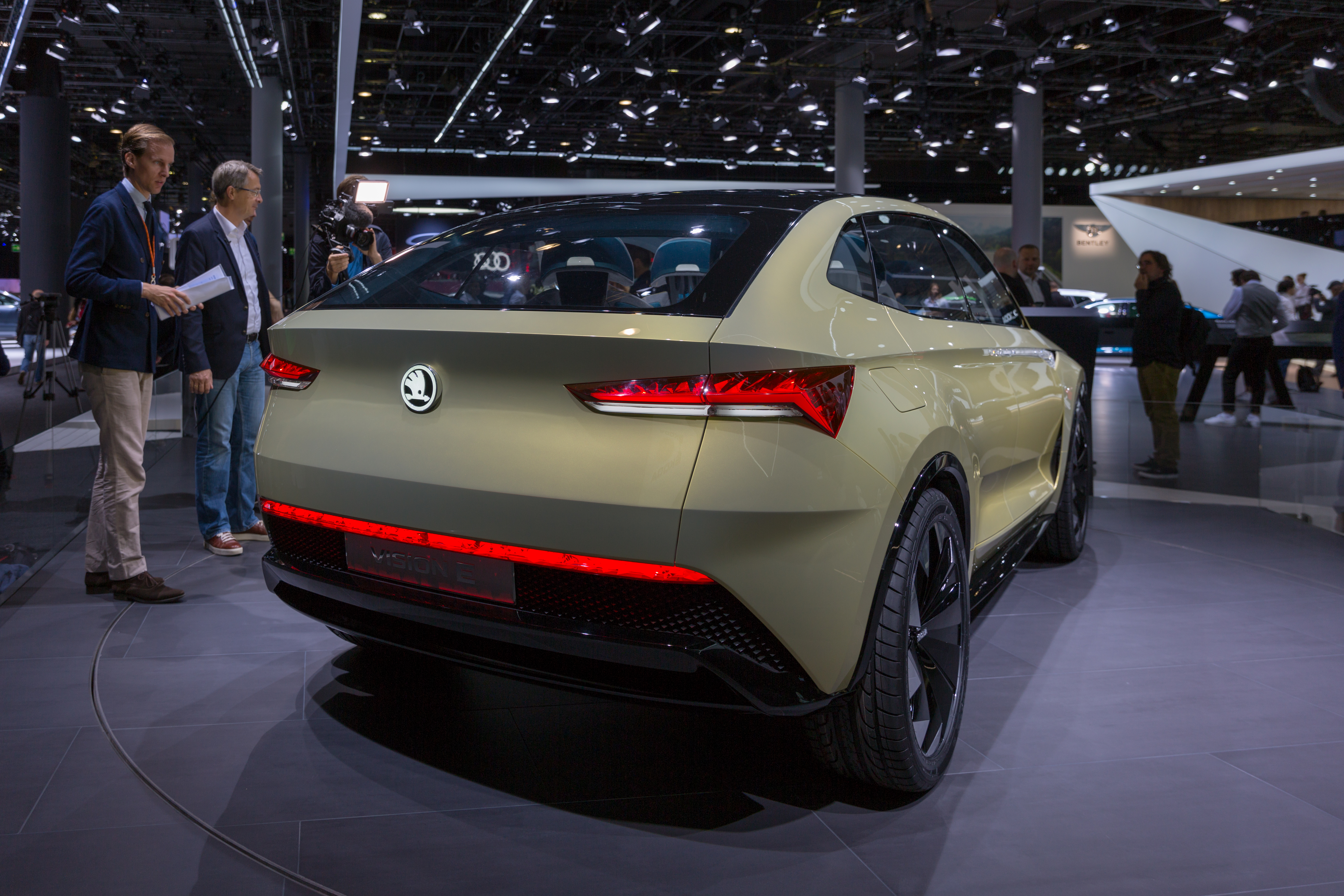 IAA 2017